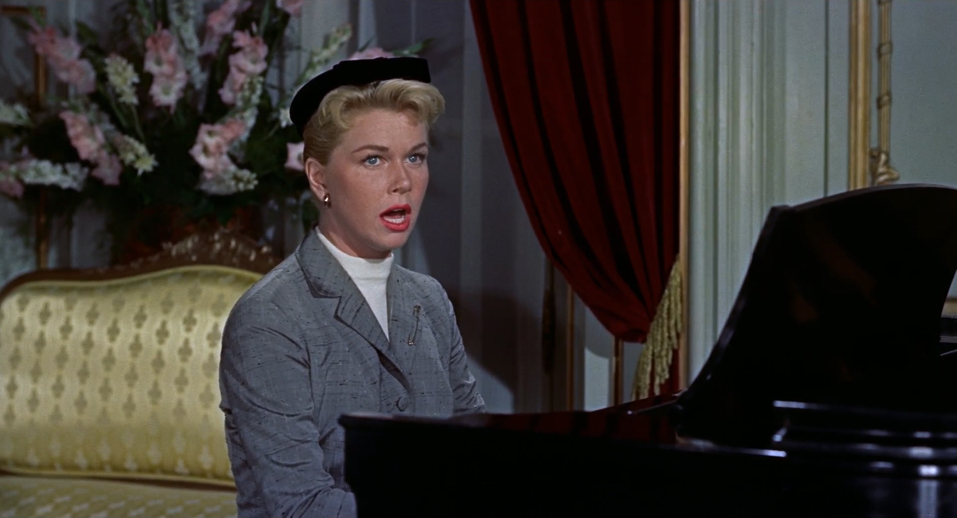 Screenshot of the film The Man Who Knew Too Much (1956) in which Doris Day performs the song Que Sera, Sera.